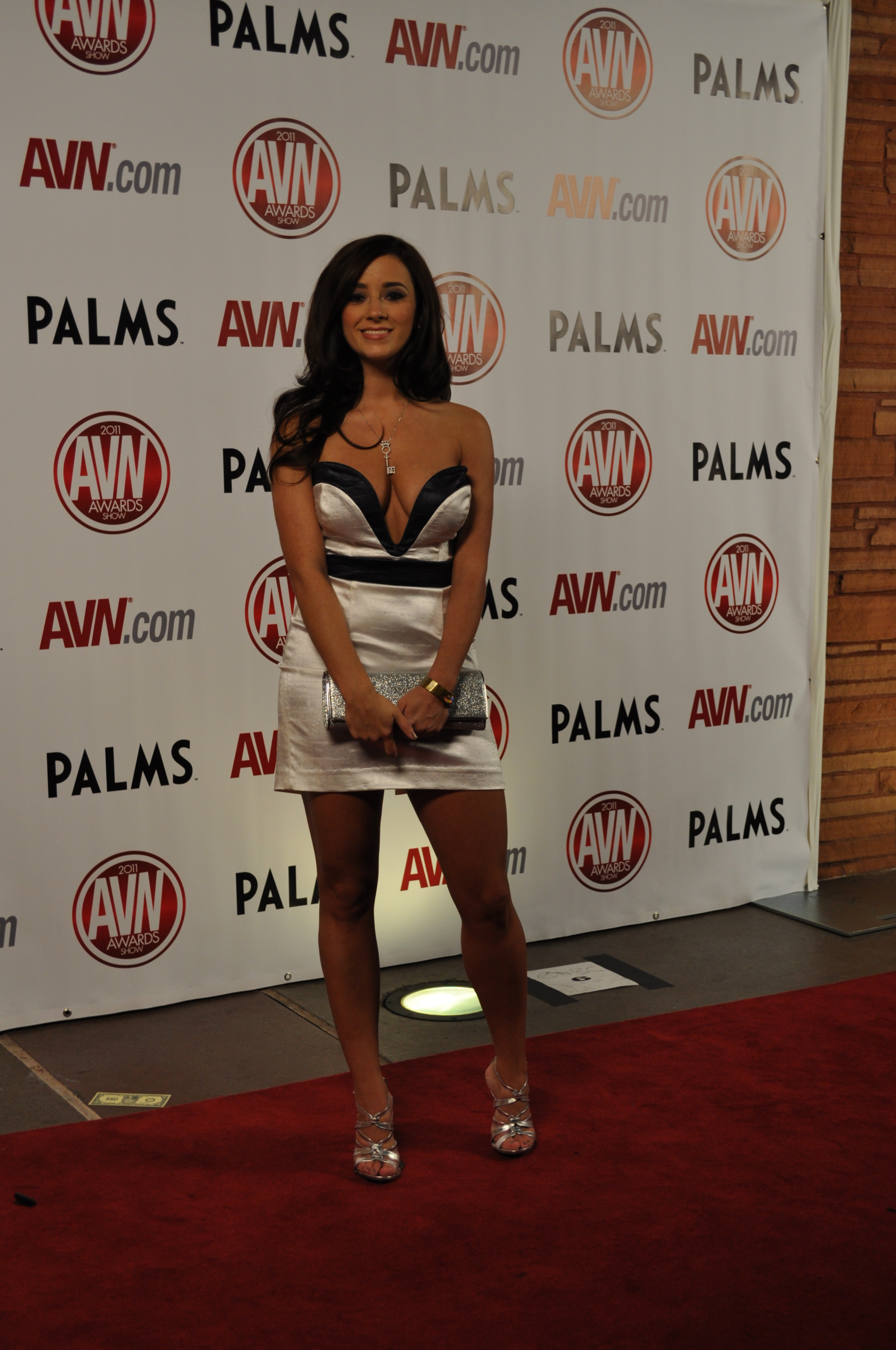 Taylor Vixen at AVN Awards 2011